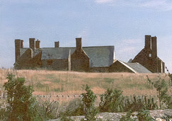 Sker House Atop the wind blasted dunes of Sker Point, a Cistercian monastery founded some 900 years ago became a private house in Tudor times. It has had a chequered history and is surrounded by impossibly romantic tales of ghosts and thwarted love. This picture was taken just a very few years before the house, derelict for a century, was saved from total collapse and is now saved for the nation as one of the most important historic houses in Wales.